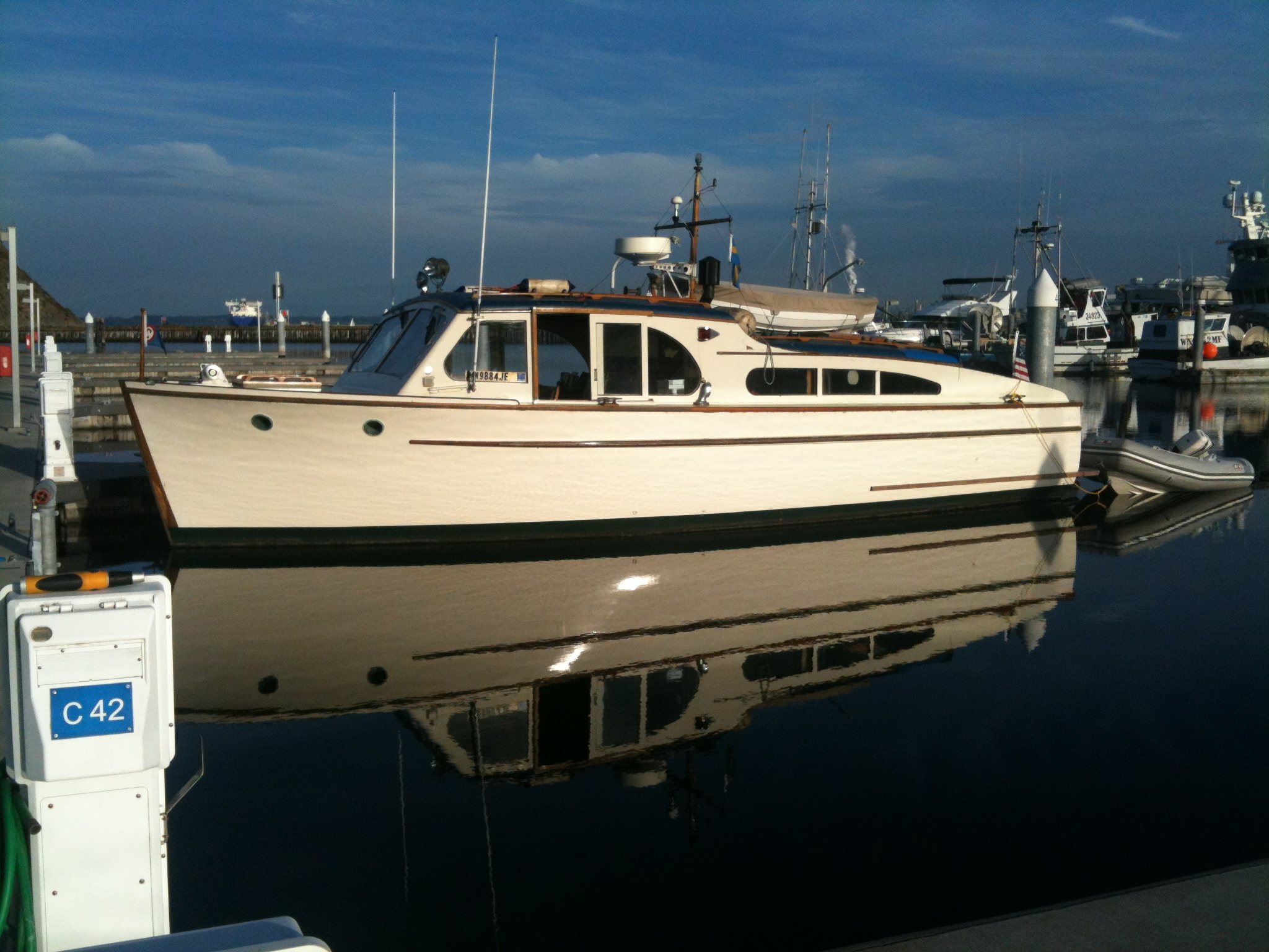 Picture of King Gustaf moored at Cap Sante Marina, Anacortes, WA, an example of an Ed Monk, Sr., boat design.